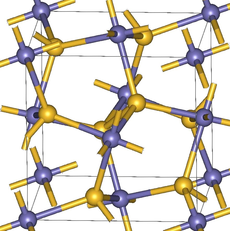 Iron sulfide-type structure. Same for ZnO2. Yellow atoms are sulfur (or oxygen)